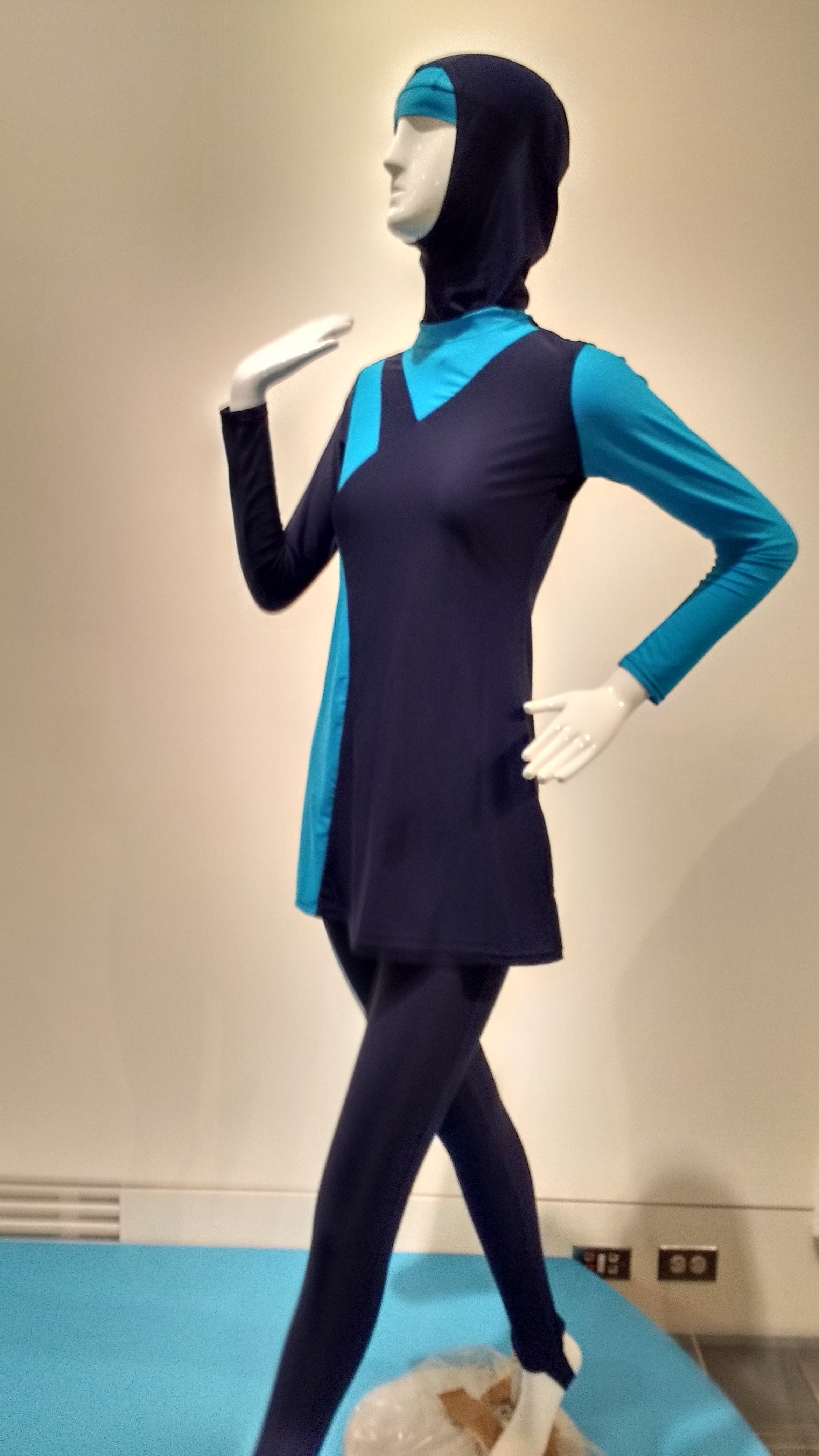 Modesty swimsuit or burkini, displayed on mannequin as part of the museum exhibition Second Skin: The Science of Stretch at the Chemical Heritage Foundation, on view from November 4, 2016 to May 6, 2017. The four piece modesty swimsuit set is made of 80% polyester and 20% spandex. It consists of pants, tunic, hair cap and swim hijab. The navy blue legging-style pants have stirrups to go under the feet. The teal and navy blue tunic is soft to the touch and has long sleeves. The tunic has ties on the inside to tie to the bottom pieces. The teal blue swim cap/underscarf covers the hair and is worn under the swim hijab. The swim hijab is a navy blue hood which covers neck and hair with an opening for the face. The hijab is to be placed over a swim cap/underscarf.